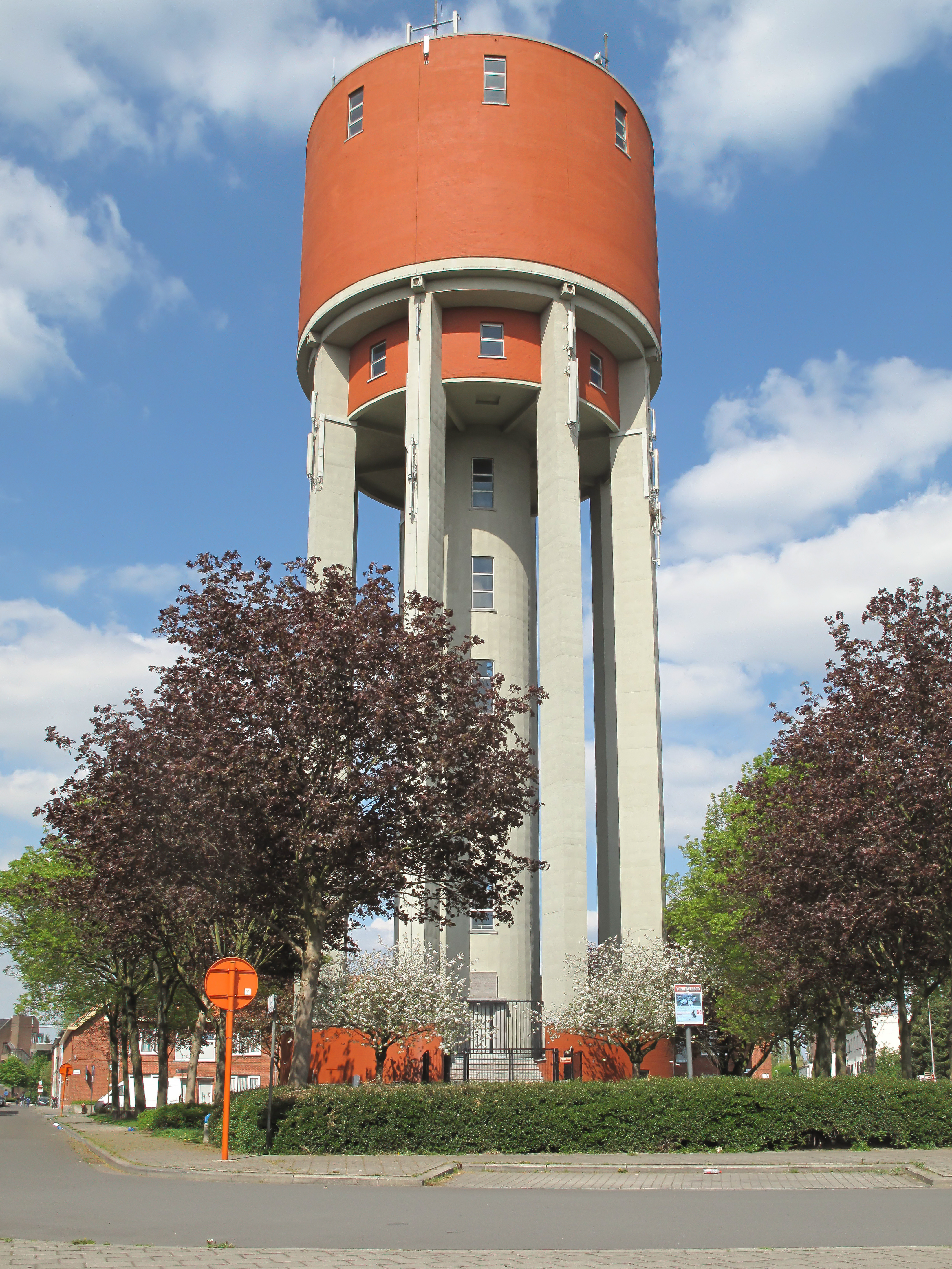 Wondelgem, watertower